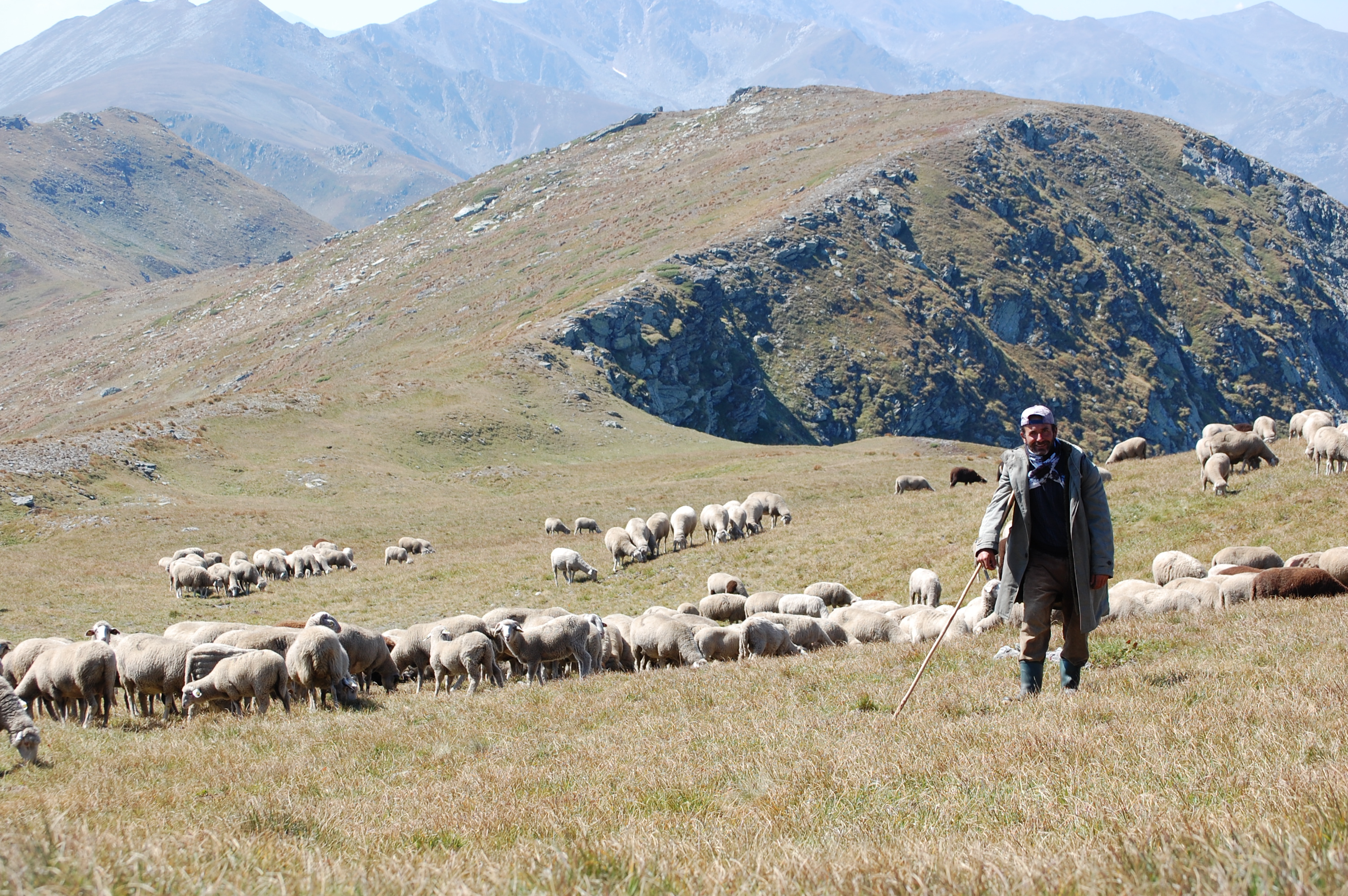 Motive nga Sharri